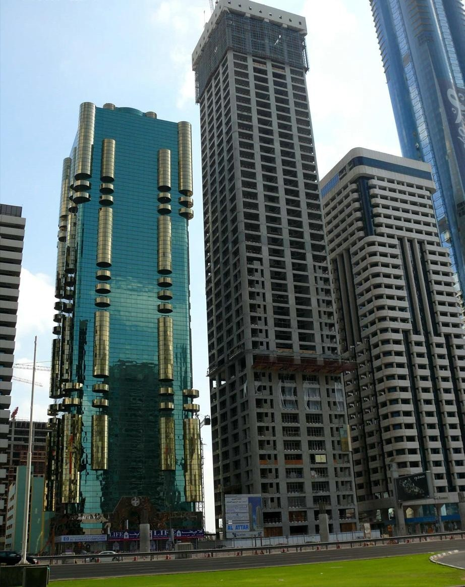 This is a photo showing the construction of Ahmed Abdul Rahim Al Attar Tower, located along Sheikh Zayed Road in Dubai, United Arab Emirates, on 28 December 2007.